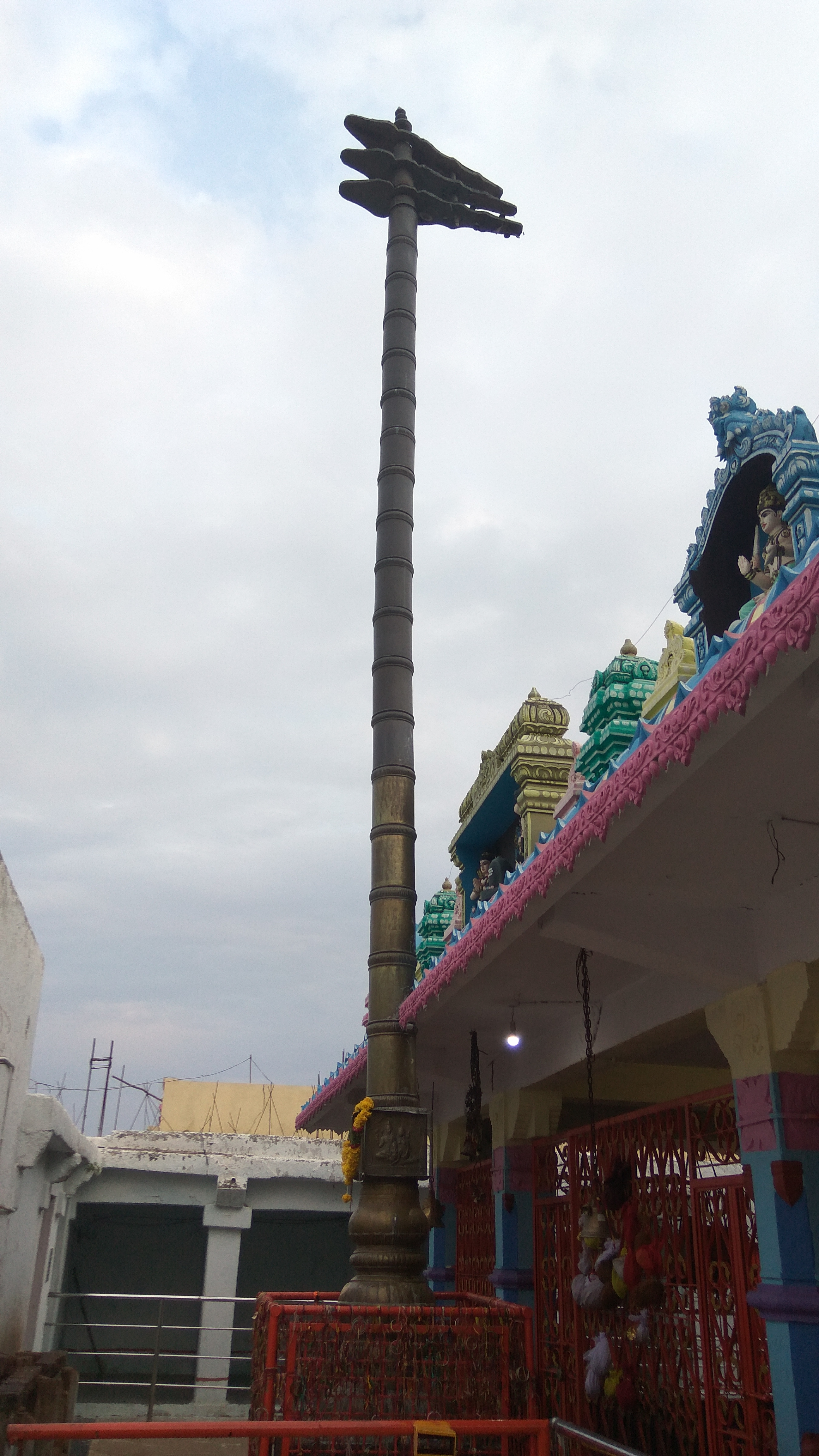 Rameshwara Temple, Raikal, Farooqnagar, Mahbubnagar District,Telangana State